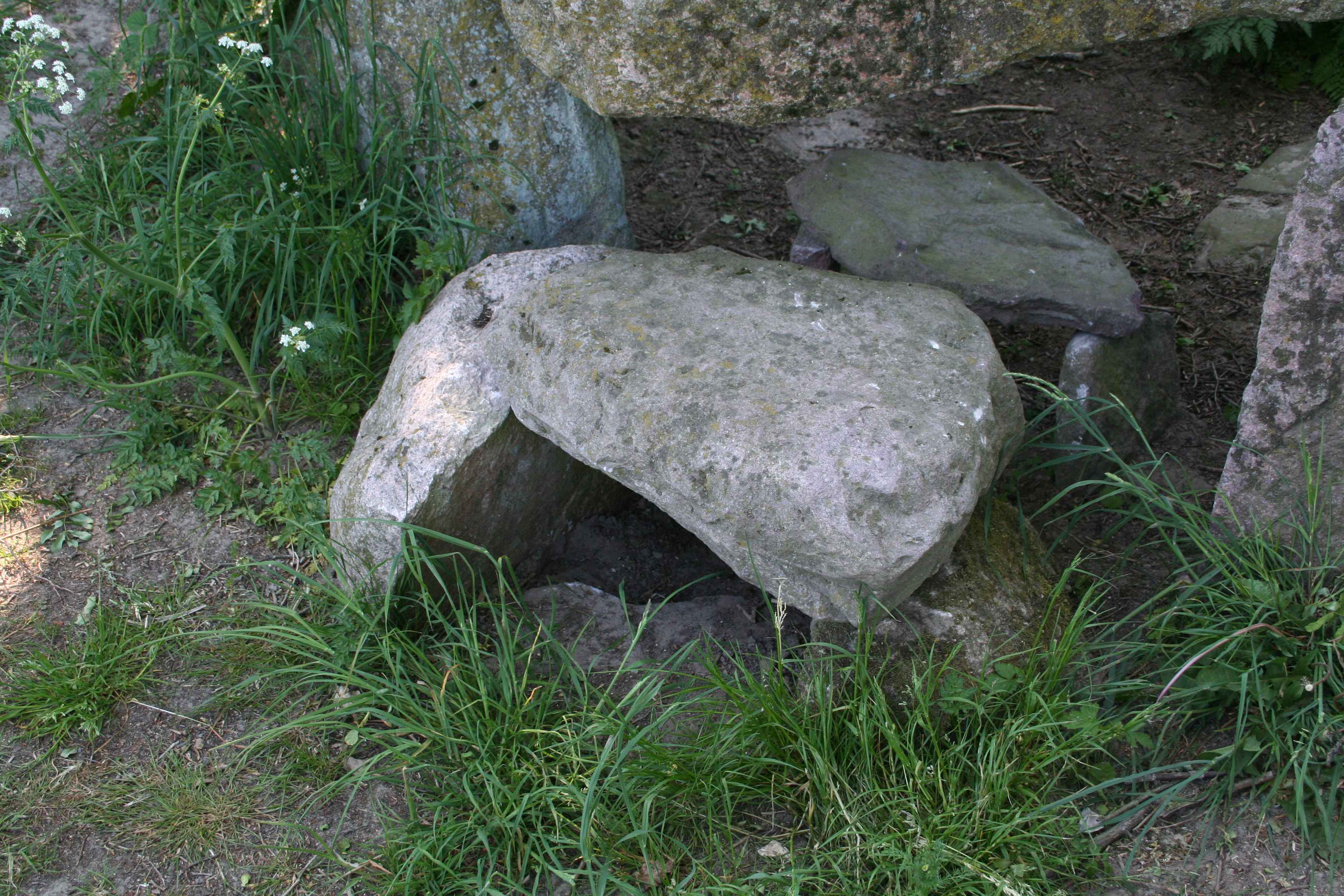 Megalithic tomb Lancken-Granitz 4